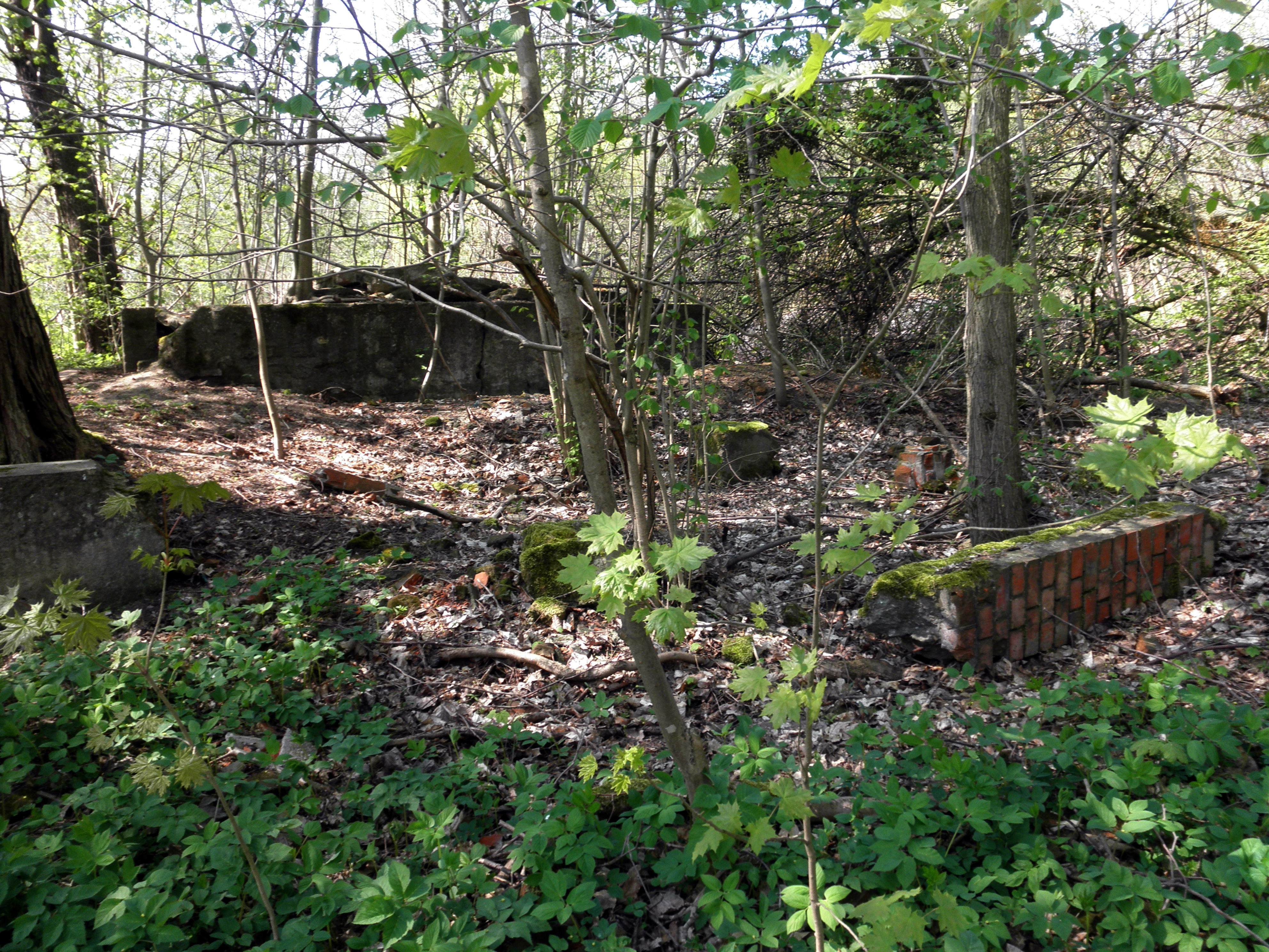 Relicts of Forsthaus Moditten in Kaliningrad Oblast in Russia